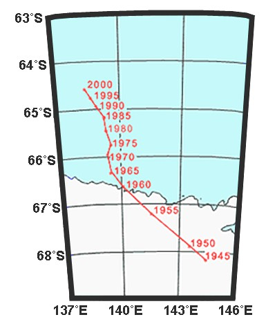 Variations in the Earth's Magnetic Field - South magnetic pole 1945-2000.